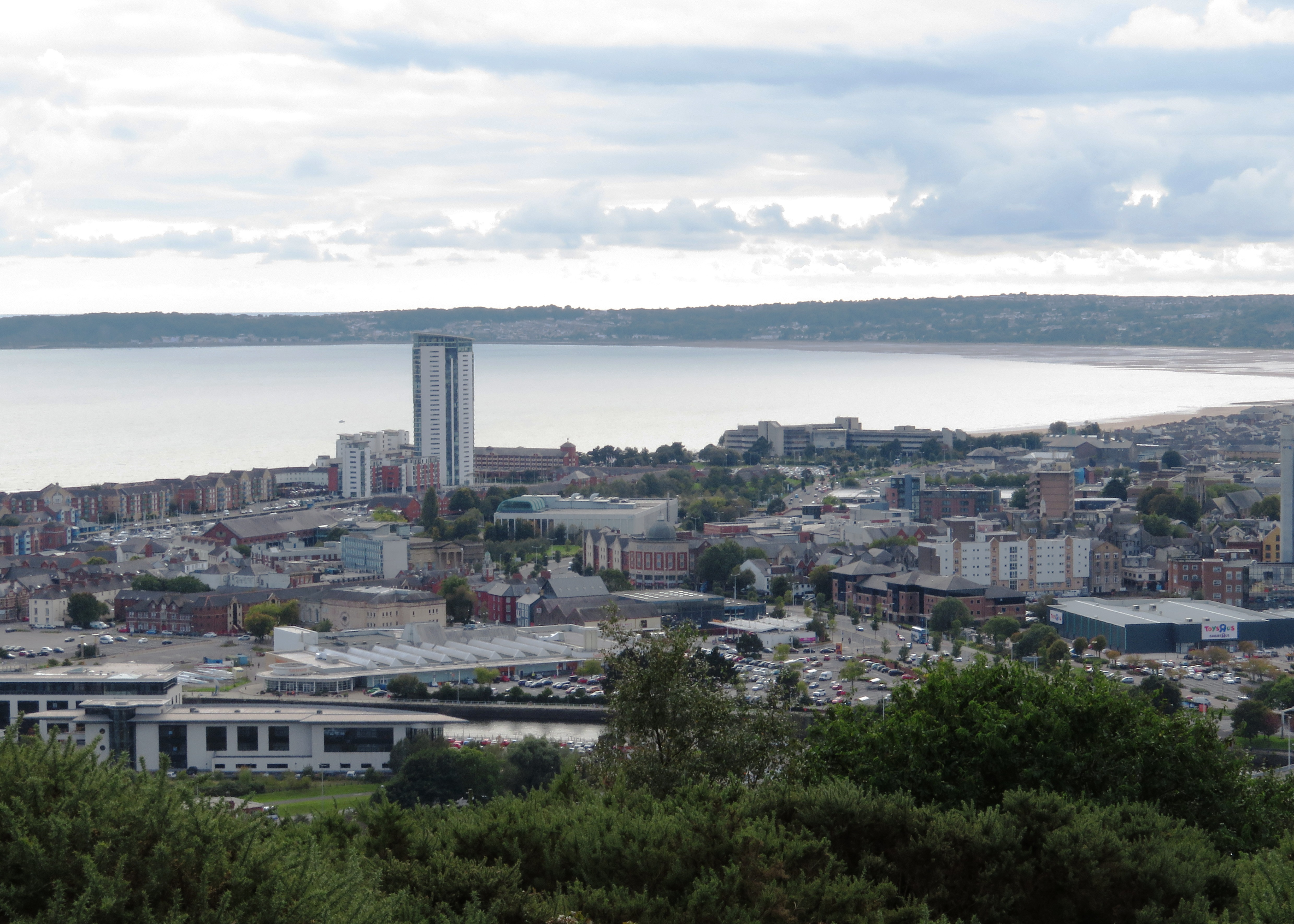 The Tower from Kilvey (September 2017)